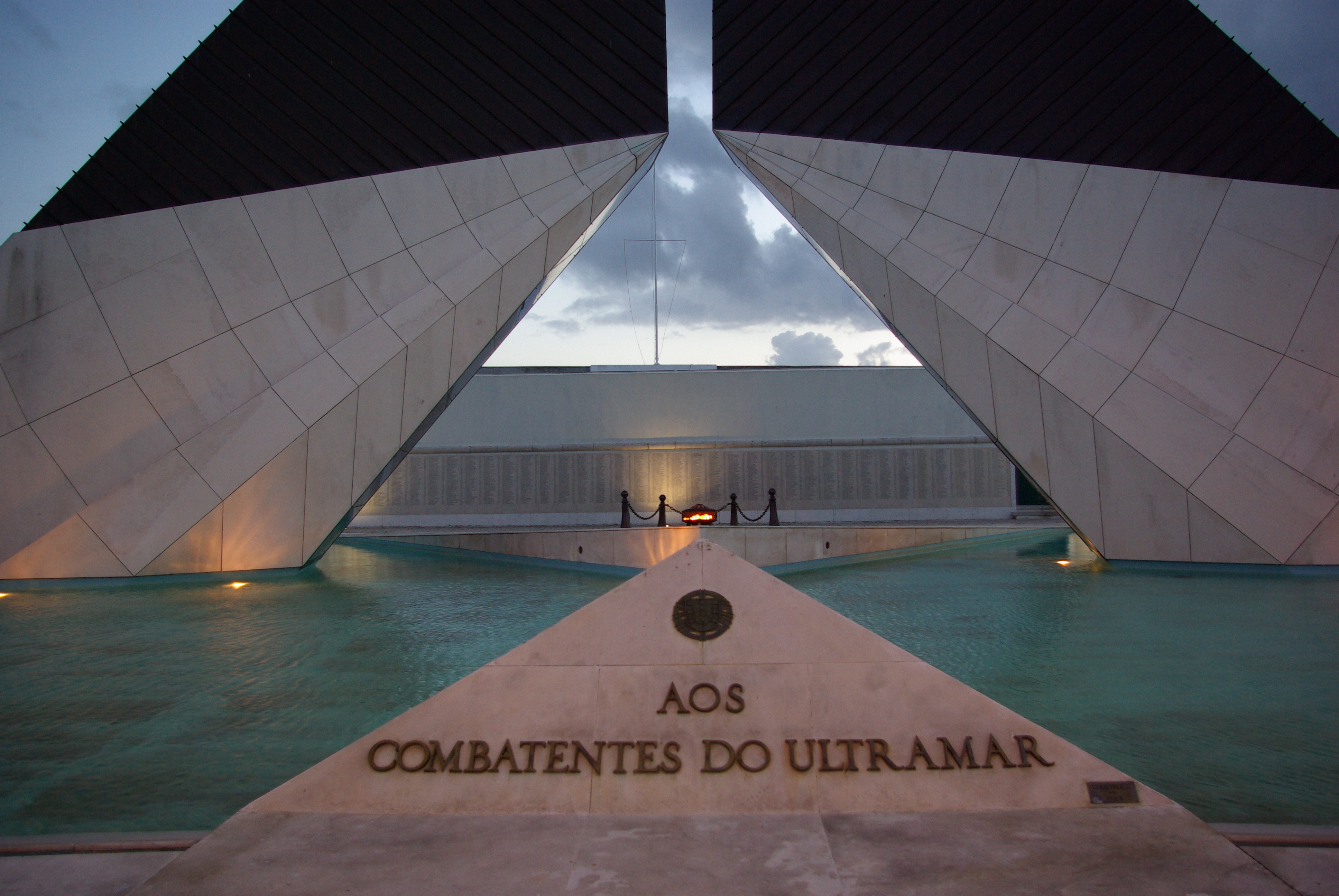 Memorial Monument of the overseas fallen soldiers; Lisbon, Portugal